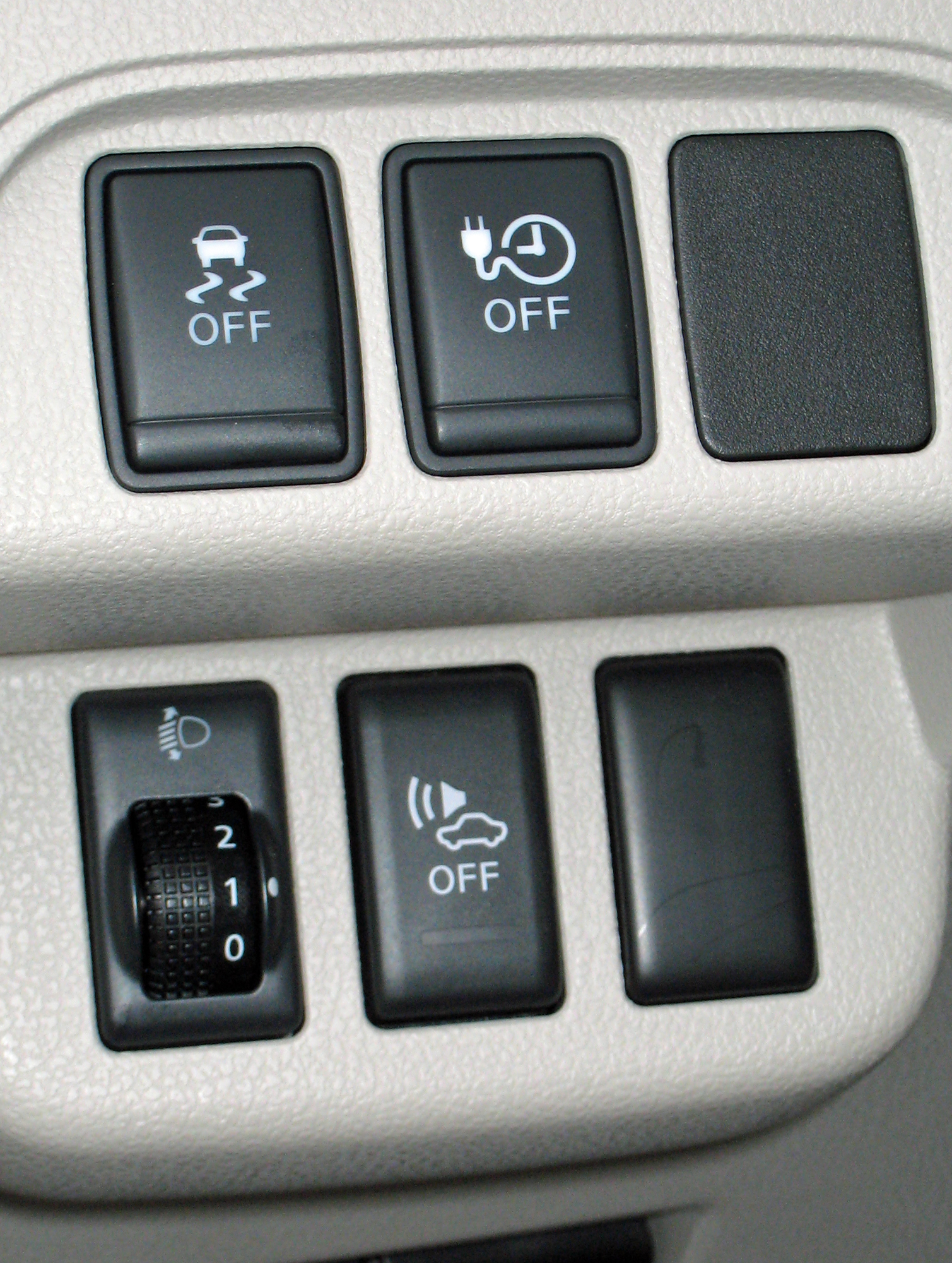 Nissan Leaf control panel showing the warning sound switch. The middle button on the bottom can turn OFF the artificial digital sound the car makes (a faint whirrr) when the Leaf is traveling under 20 MPH to alert pedestrians, the blind, and others of its presence.